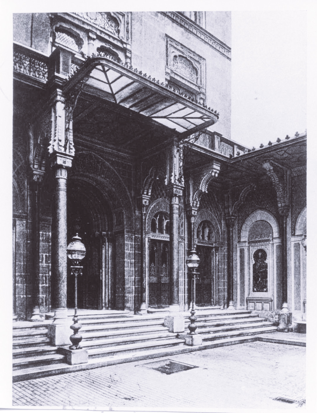 Main entrance of the Turkischer Tempel in Vienna (1885-1938)